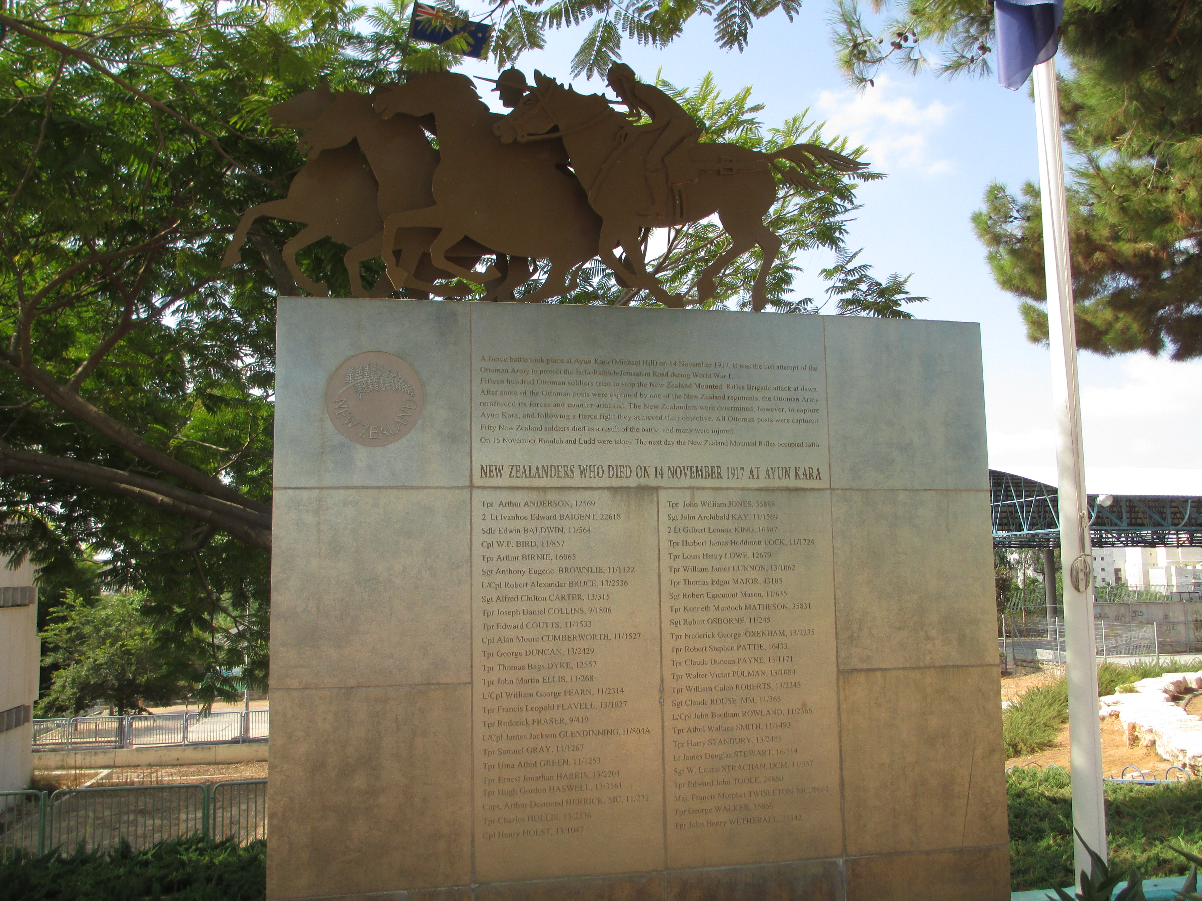 New Zealand soldiers memorial in Ness Ziona